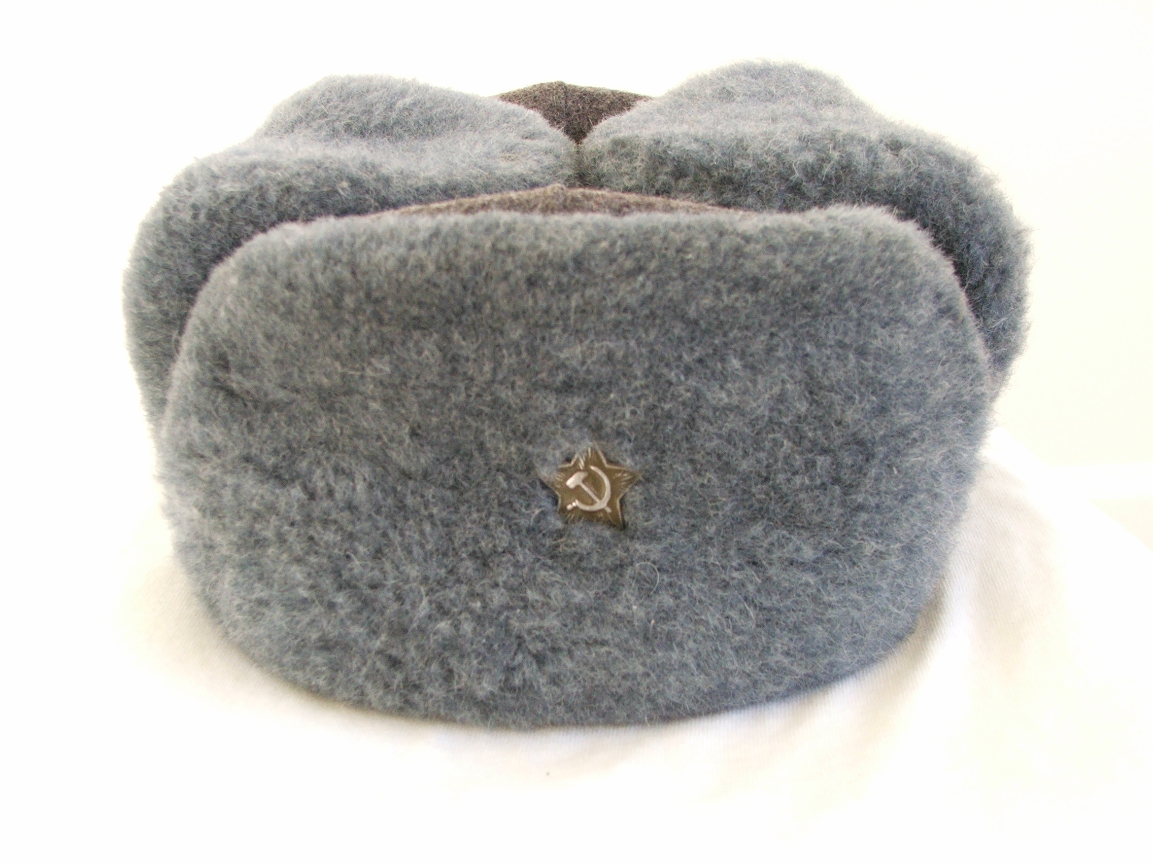 Ushanka of soldier of the Soviet Army. Made in 1988, in Babruysk.